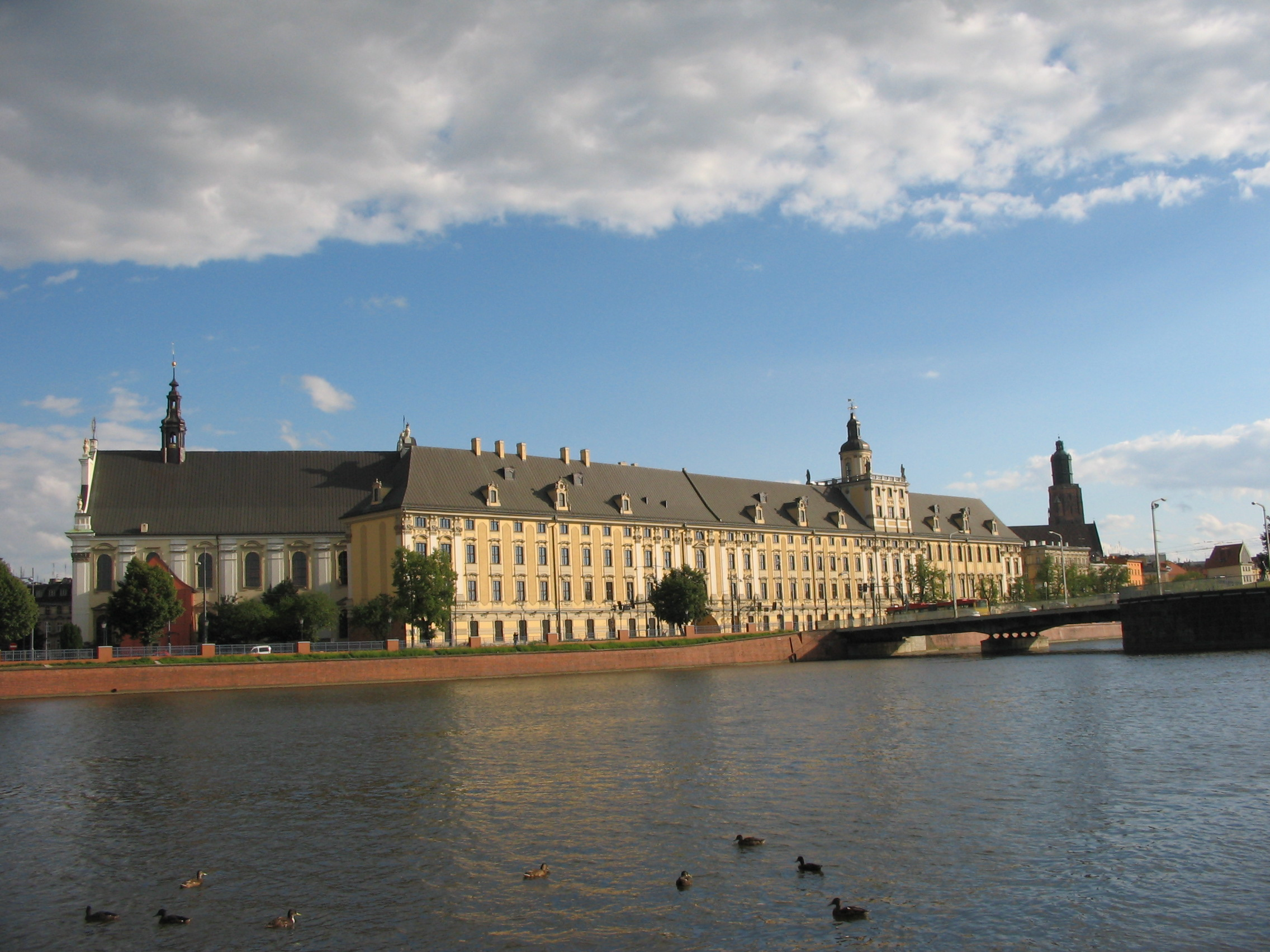 University main building at Odra river